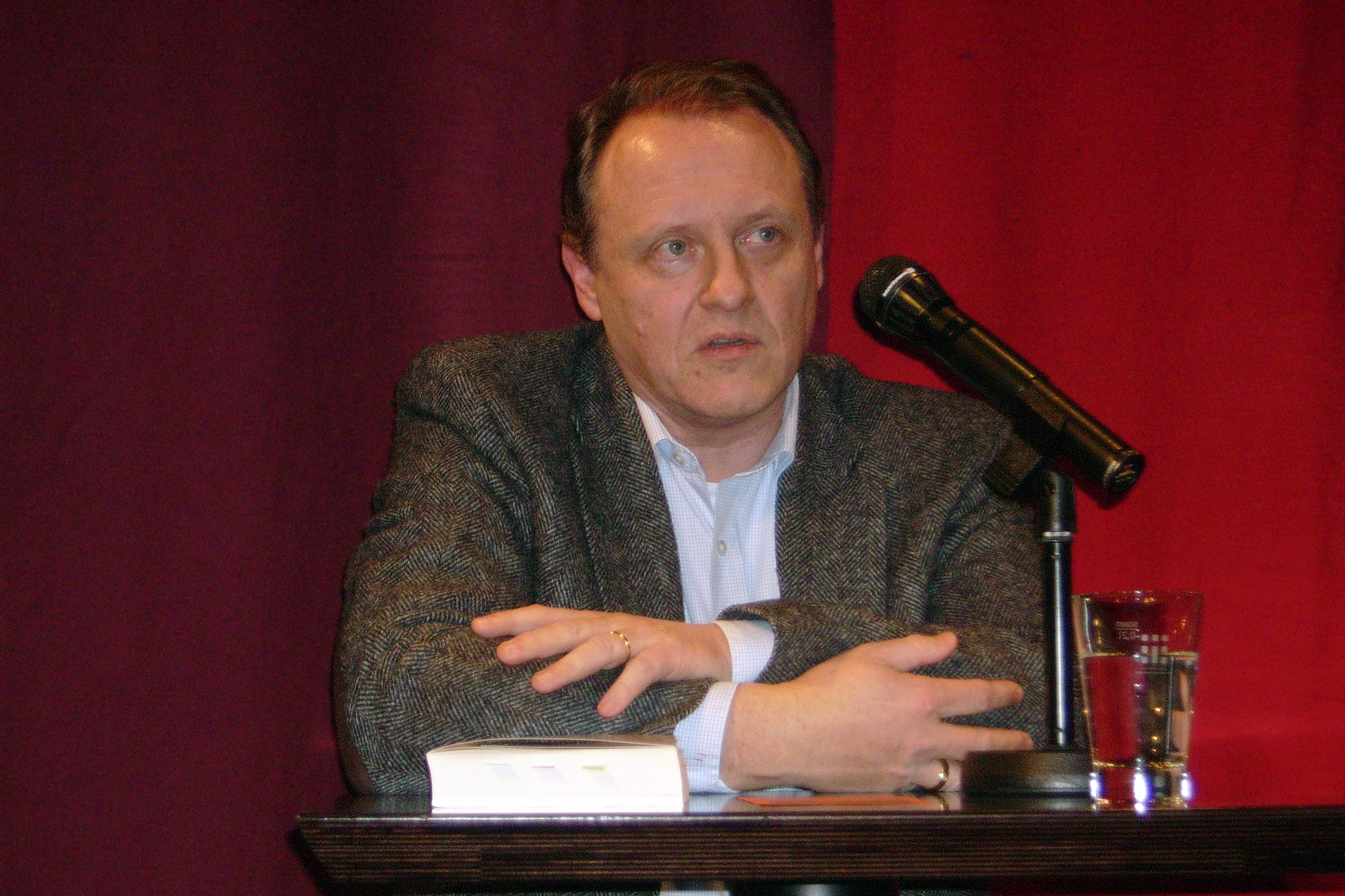 Volker Zastrow, author and journalist, at a book promotion of his own work at Marburg